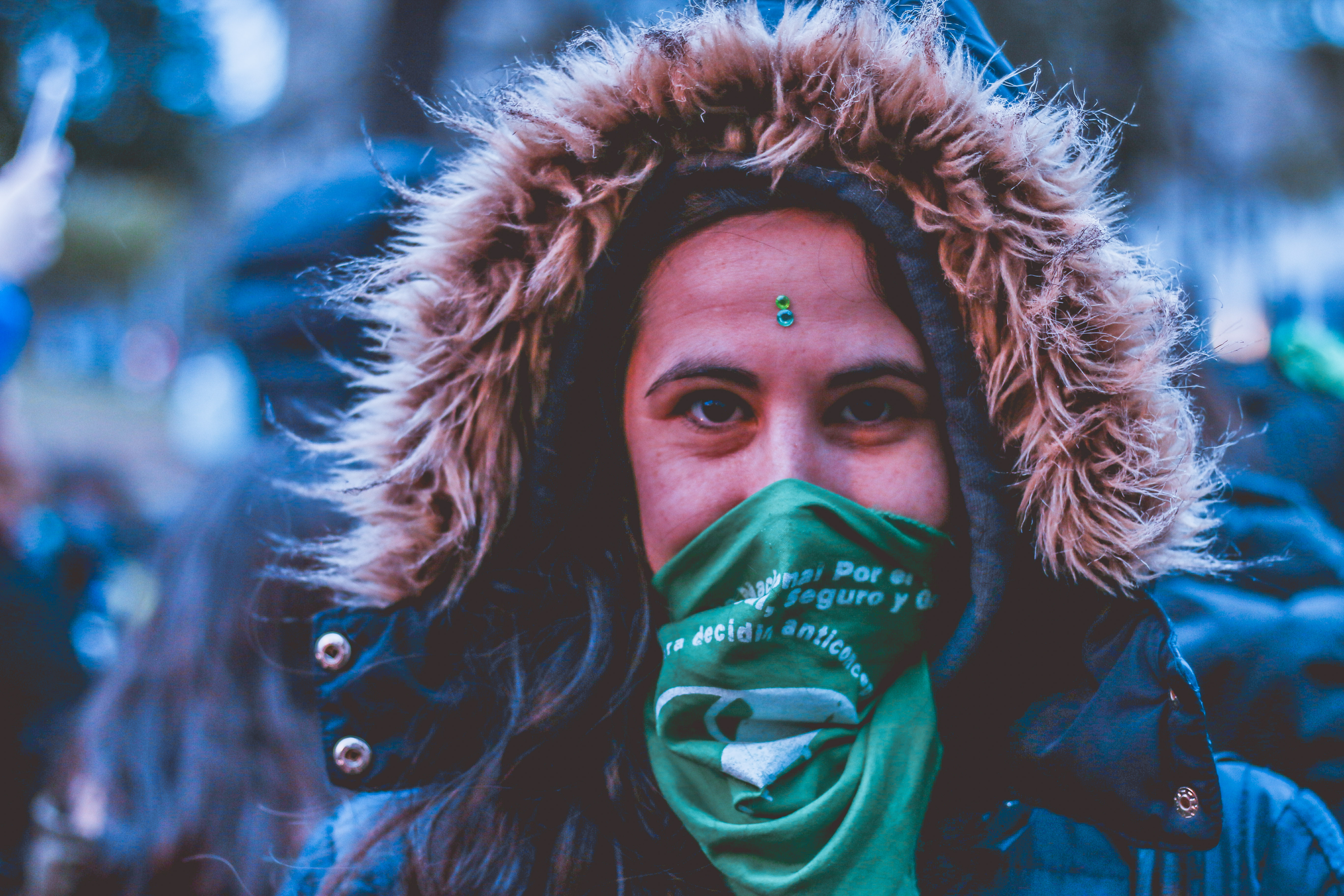 Surveillance for the bill votation of voluntary termination of pregnancy in Argentina. Paraná city, Entre Ríos province. 8A.